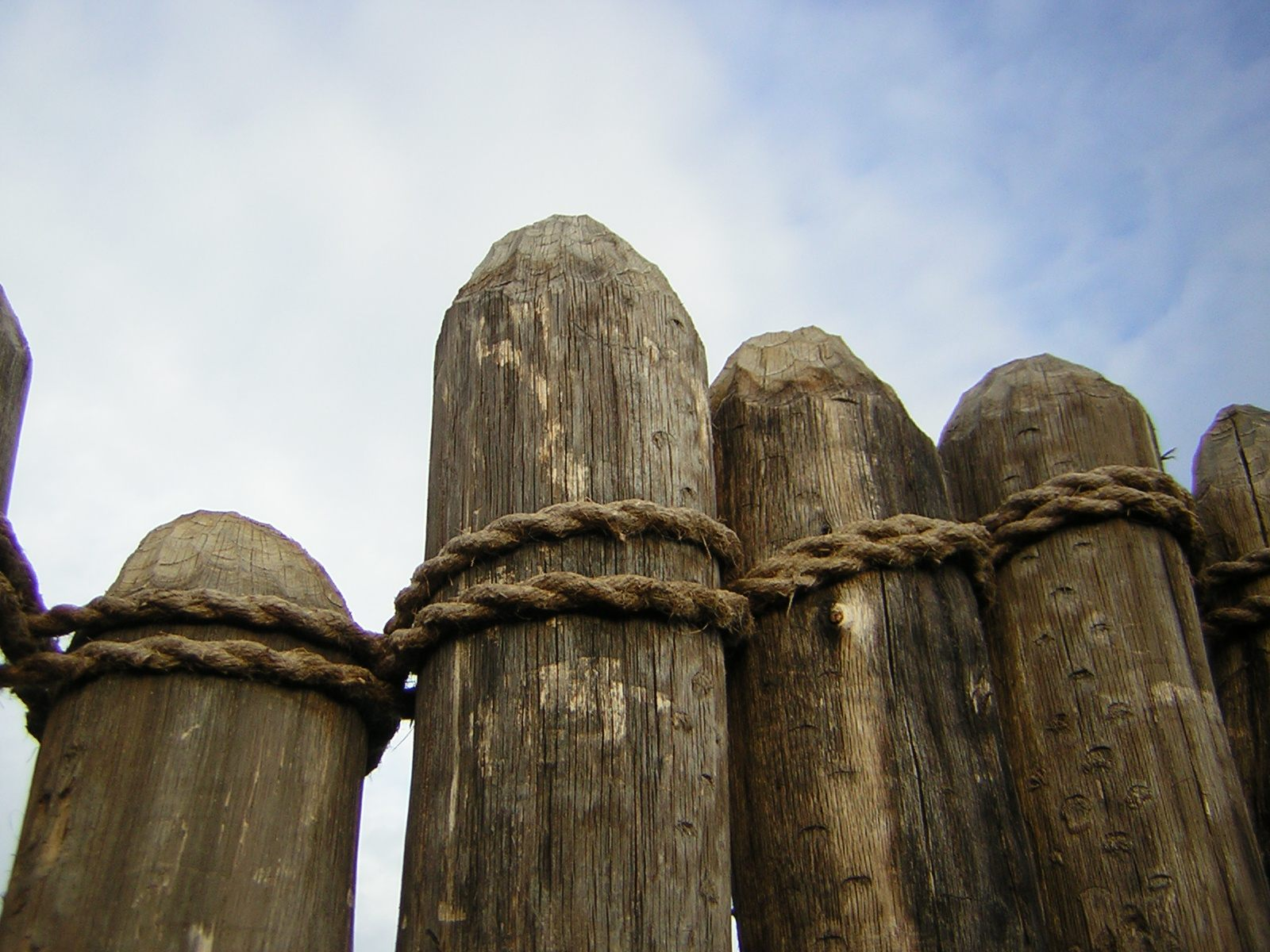 This image has been taken by Wikipedia-ce in late december of 2005 and is public domain. It shows details of the woodhenge of Goseck, Germany.